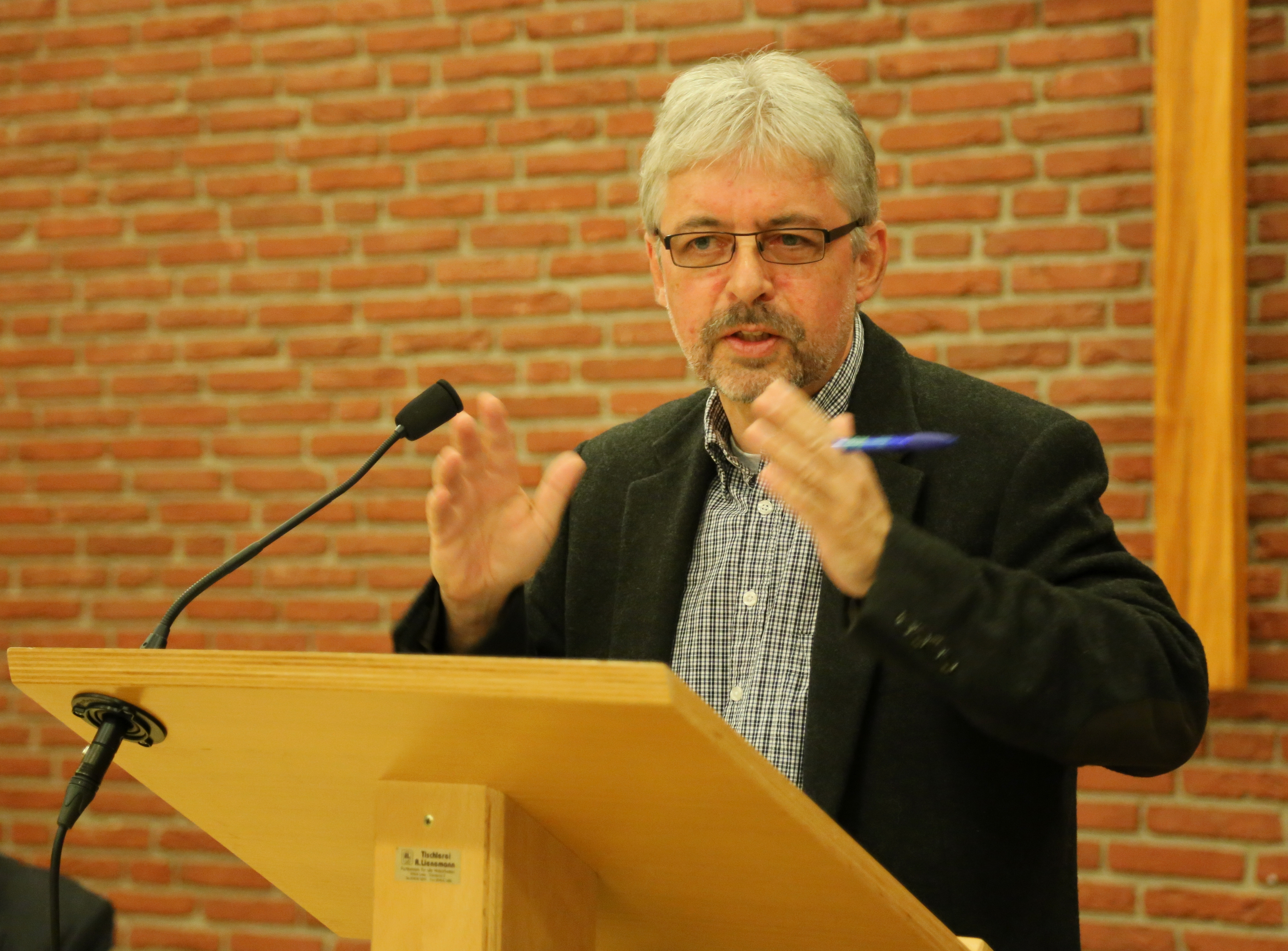 German Protestant theologian Traugott Jähnichen lecturing about role of the Church inside the state at the Ark (Arche), the Protestant Parish Hall in Alt-Lotte, a district of Lotte, Kreis Steinfurt, North Rhine-Westphalia, Germany. Dr Jähnichen is Professor of Christian social teaching at the Ruhr University Bochum (Ruhr-Universität Bochum).